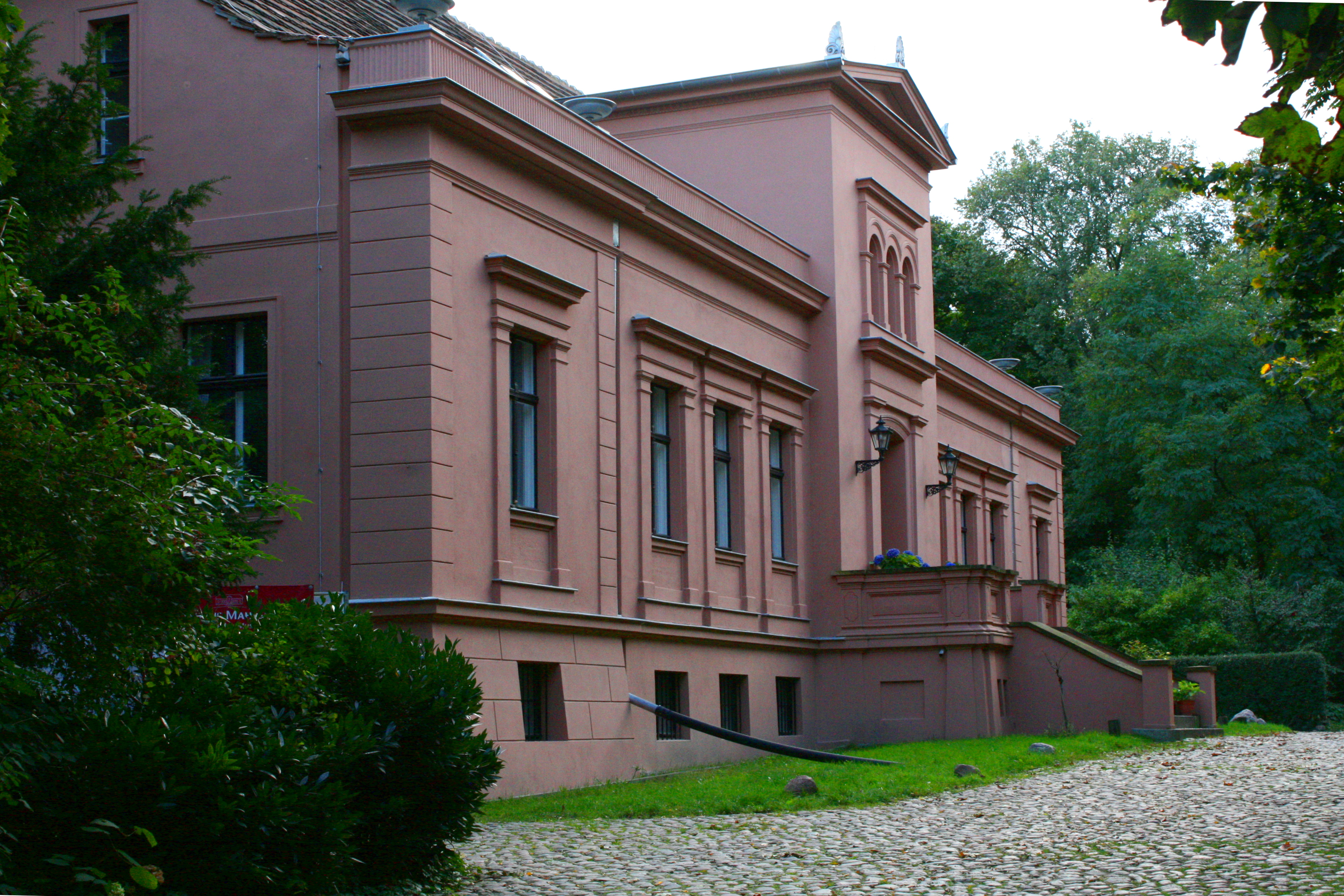 Gutshaus Mahlsdorf in Berlin-Mahldorf, home to the Gründerzeitmuseum